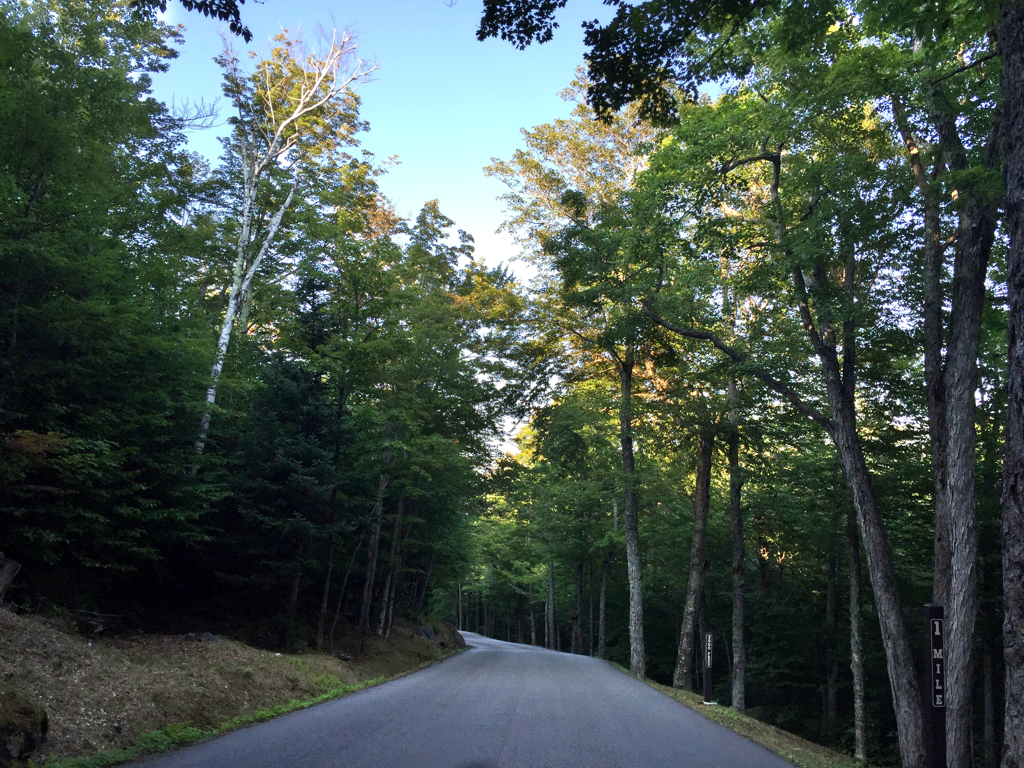 View eastbound down the Mount Washington Auto Road at about mile 1.0 (about 2020 feet above sea level) in Pinkham's Grant Township, Coos County, New Hampshire